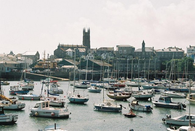 Penzance: harbour and church A pleasant harbourside view from the railway station car park.